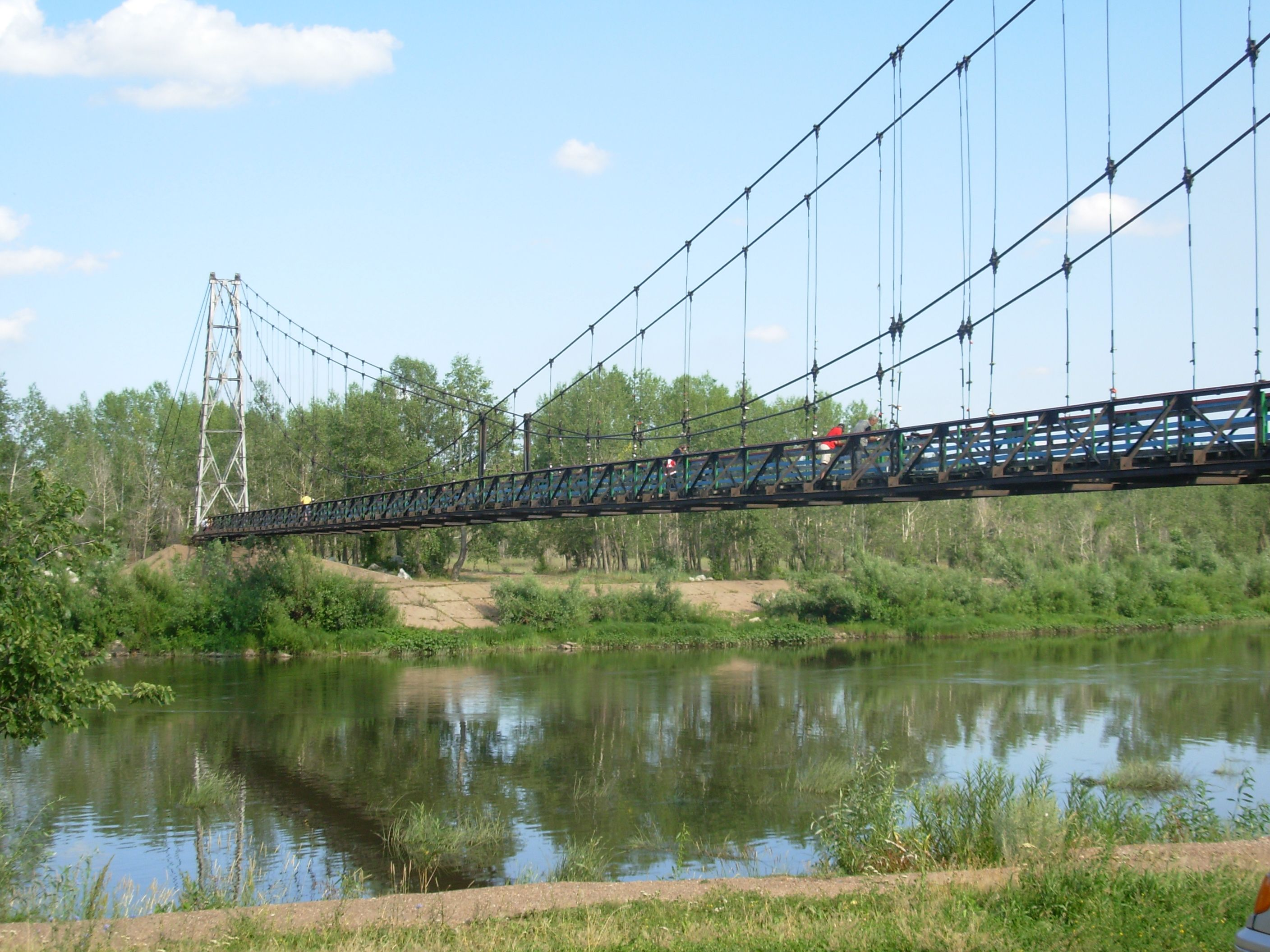 bridges in Salavat